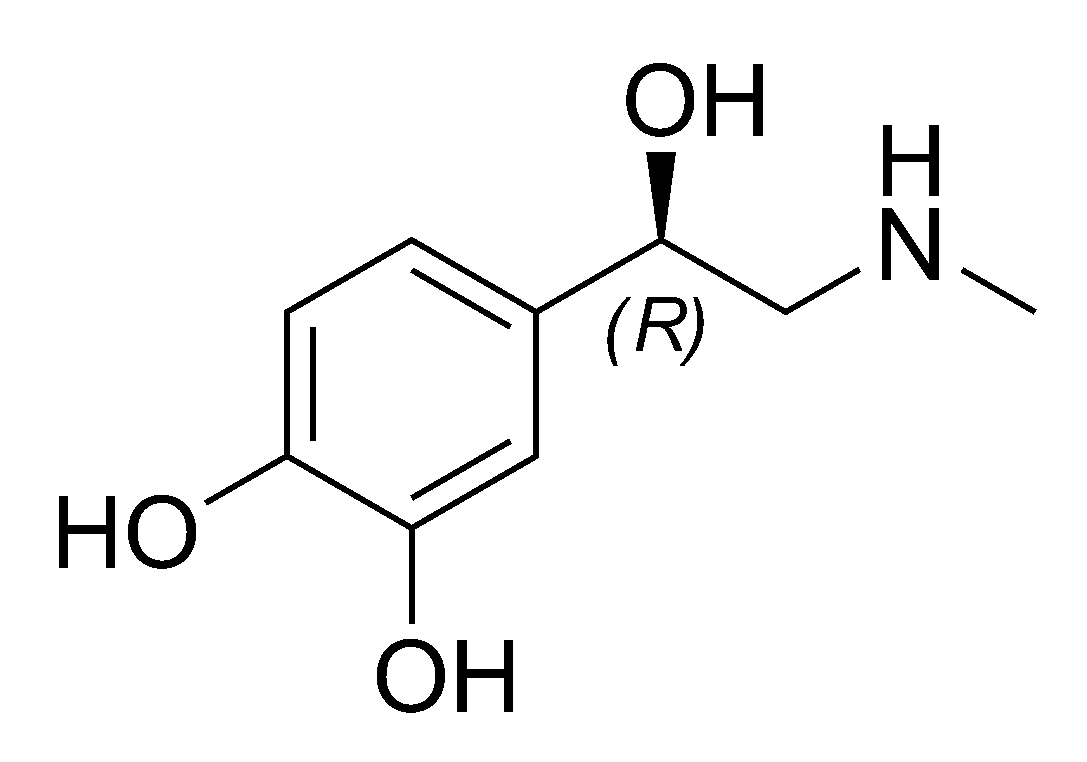 Chemical structure of epinephrine (adrenaline) Comments: High-resolution black/white .PNG made with ChemDraw and IrfanView — see WikiProject Chemistry - structure drawing for detailed instructions. Please drop me a note if you need the source file.